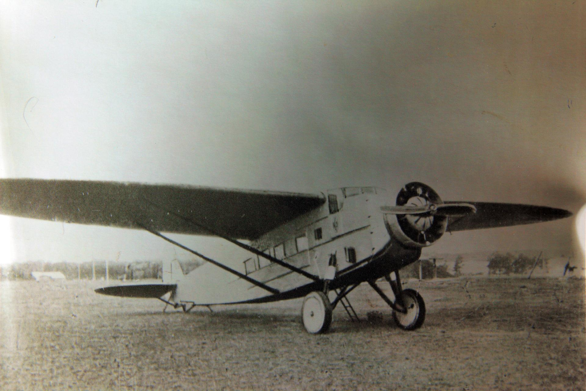 Catalog #: 01_00081691 Title: Kalinin K-5 Corporation Name: Kalinin Additional Information: Germany Designation: K-5 Repository: San Diego Air and Space Museum Archive